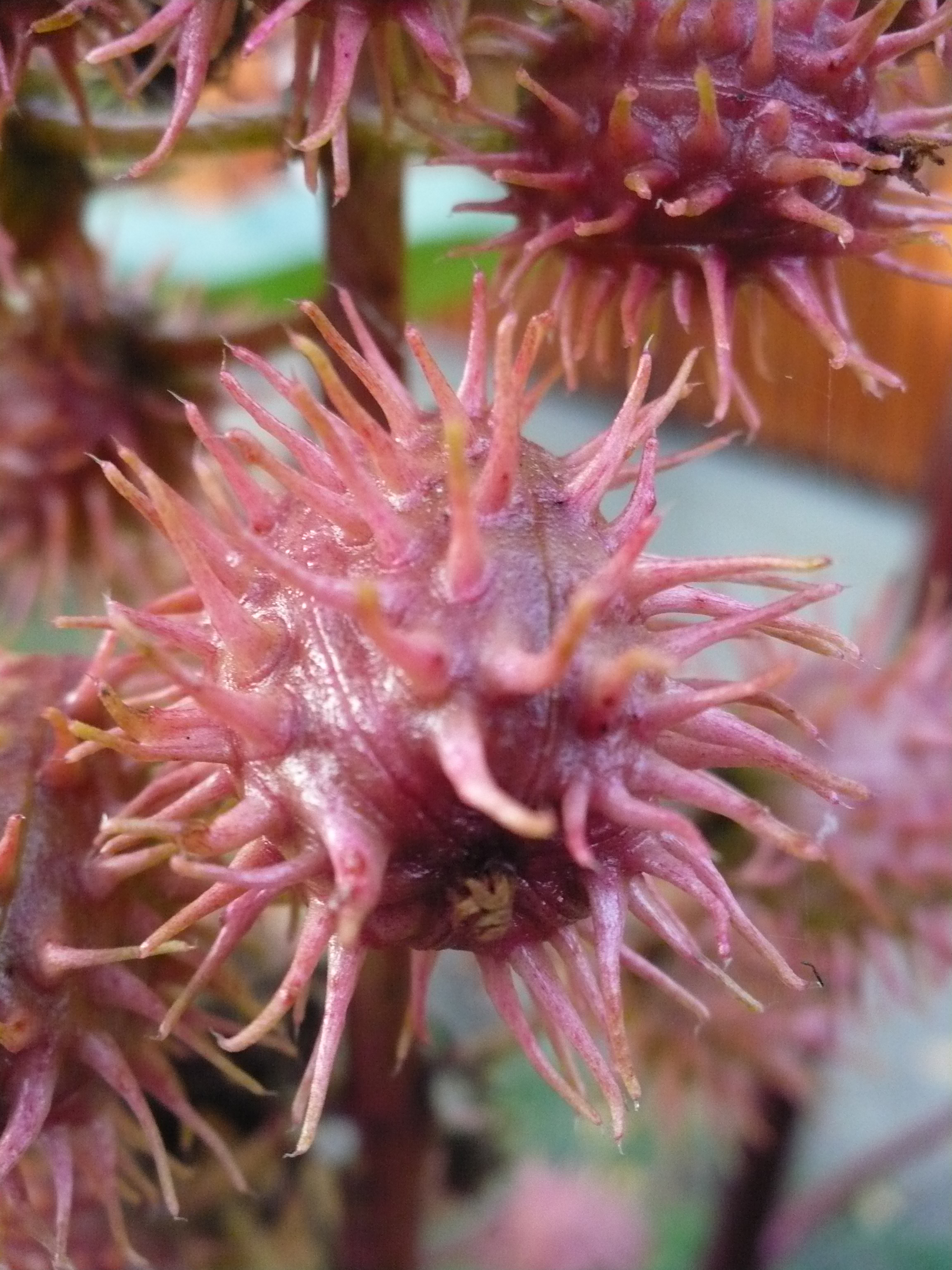 Fruits of ricinus